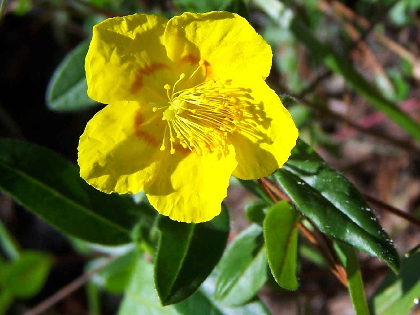 Helianthemum grandiflorum (pl. posłonek rozesłany) habitat: Tatra Mountains, Dolina Tomanowa